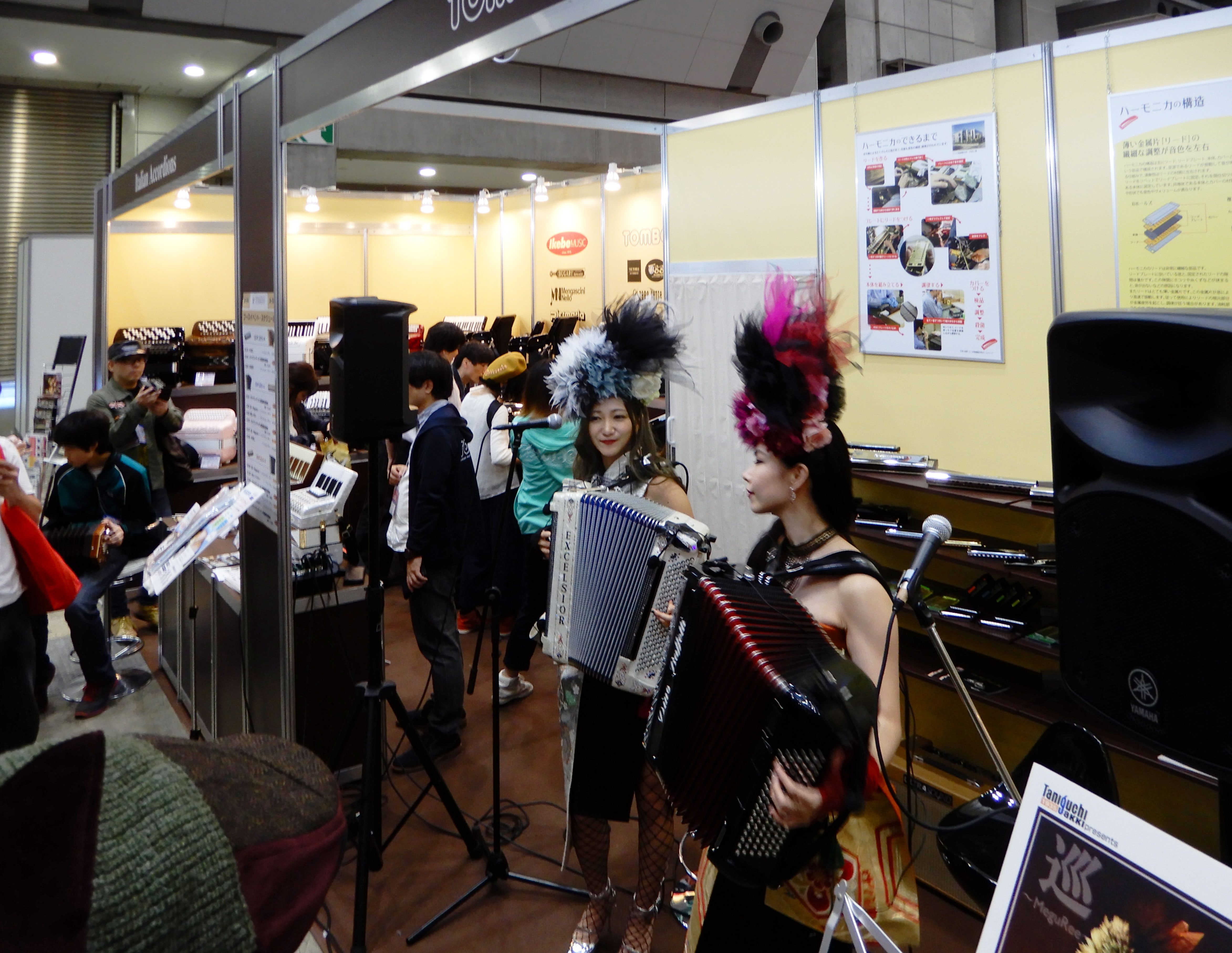 A-04 exhibition booth of Musical Instruments Fair Japan 2018 i.e. "Gakki Fair 2018" which was held at Tokyo Big Sight from 19th to 21nd October. Female accordionist duo MeguRee gives demonstration-performance in front of harmonica shelves, while customers, while visitors talk with the shop assistants. A visitor is trying the English concertina sitting on a chair.